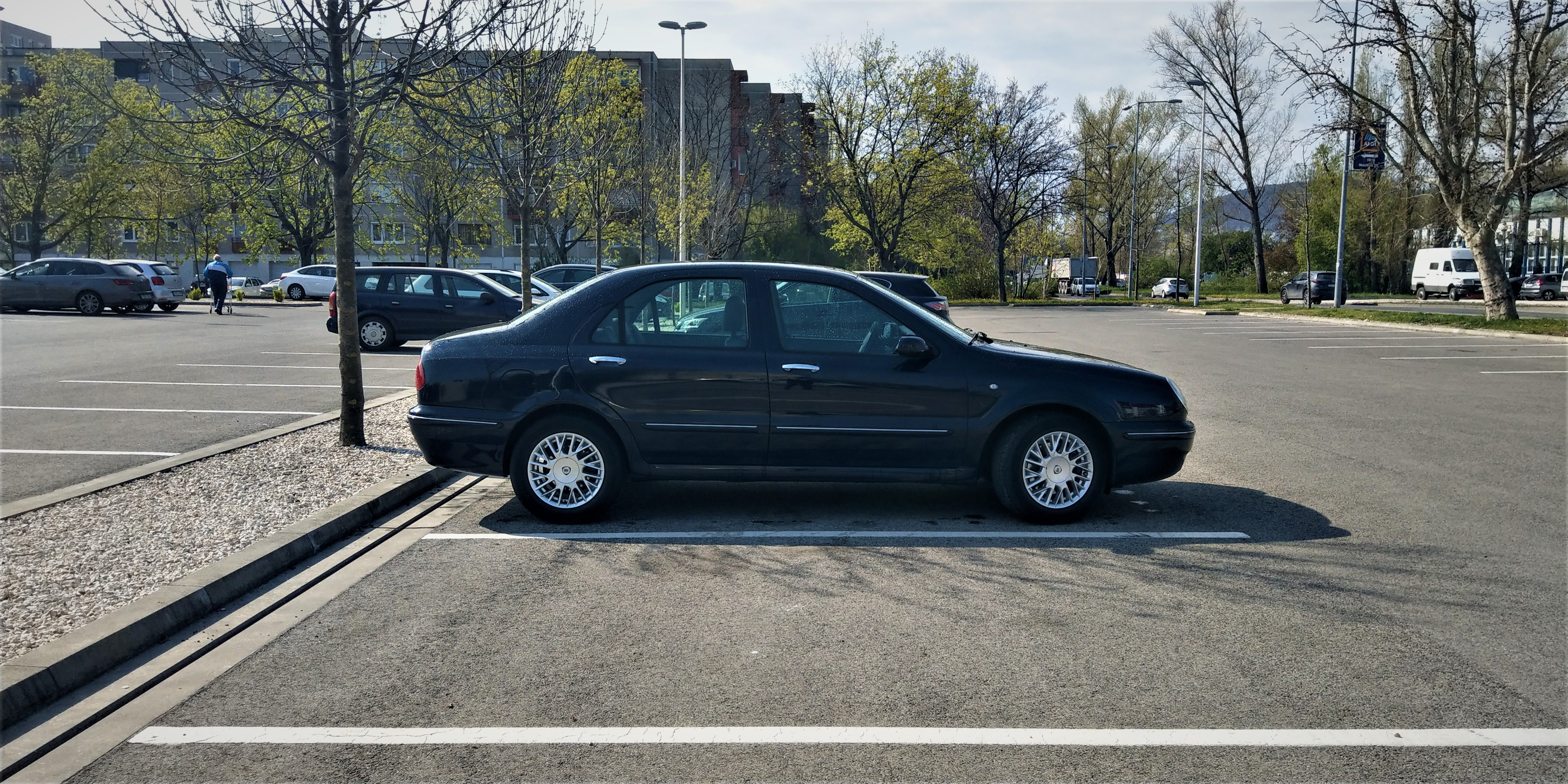 Lancia Lybra on original alloys